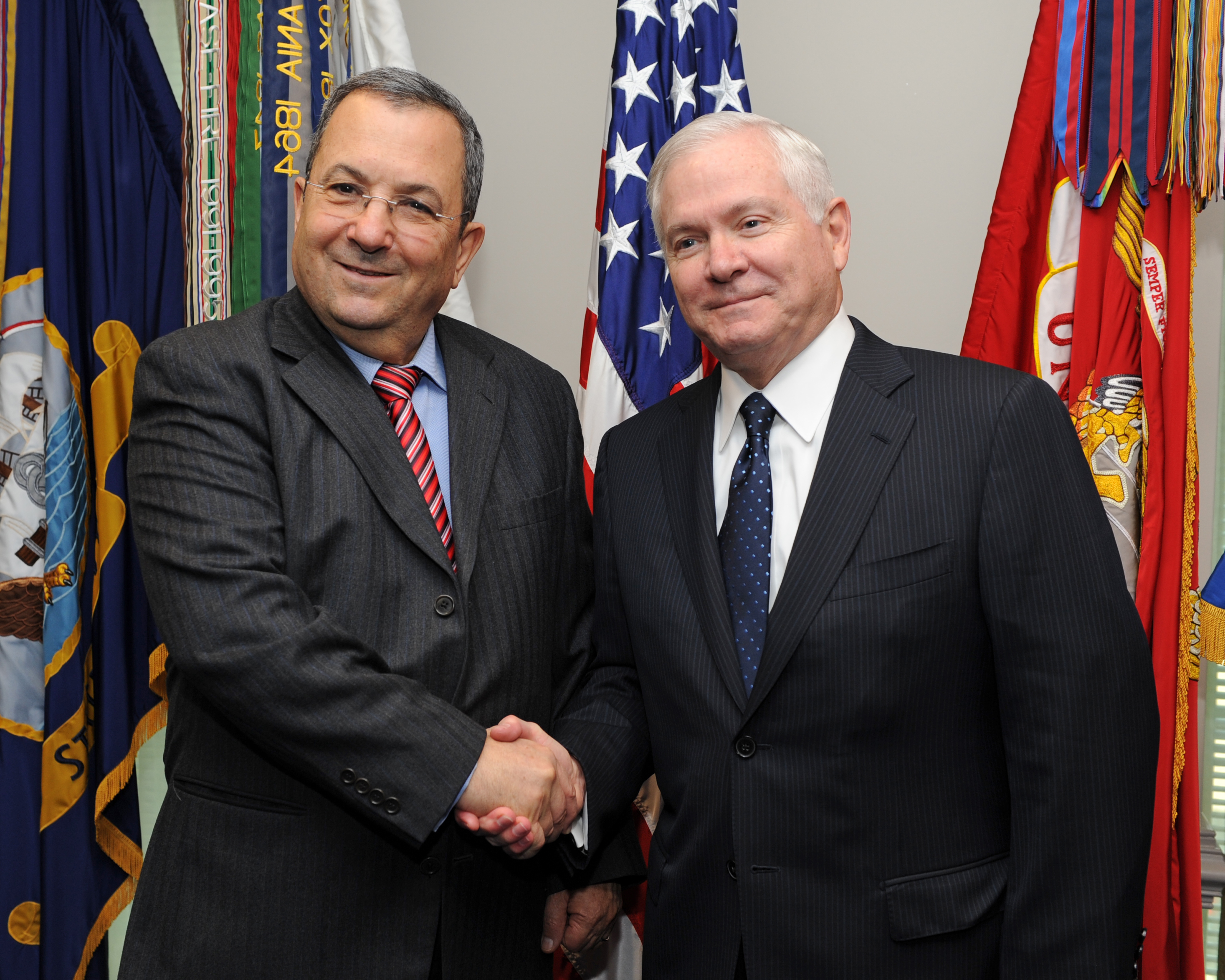 Israeli Minister of Defense Ehud Barak, left, poses for a photo Nov. 9, 2009, with Secretary of Defense Robert M. Gates at the Pentagon in Arlington, Va., before sitting down for talks on regional security issues.